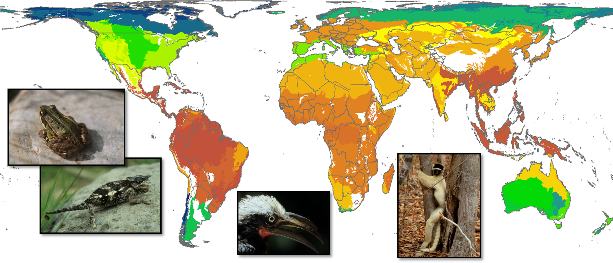 Global patterns of terrestrial vertebrate diversity analyzed in the study. Each of the 32 bioregions is colored by its vertebrate species richness (amphibian, reptile, bird, mammal richness combined; dark green represents the lowest values and dark red represents the highest values).